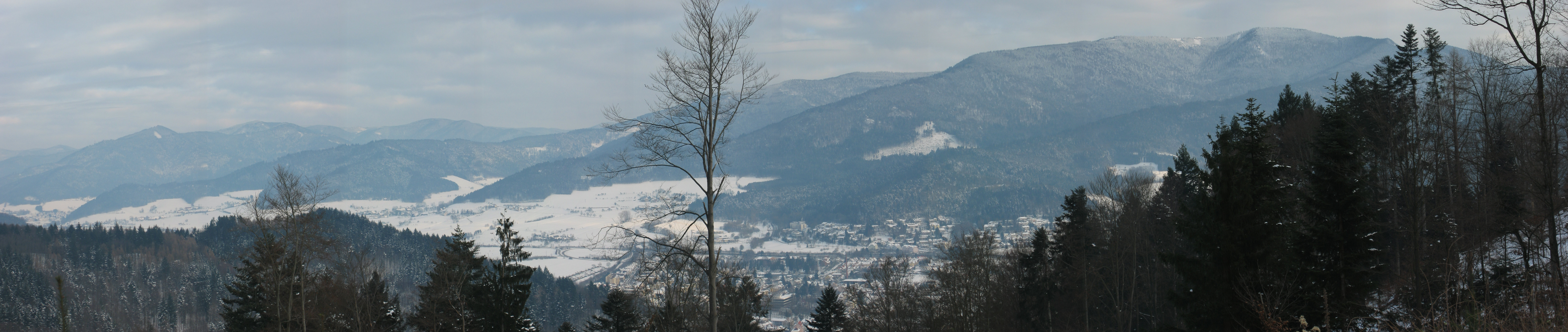 Panorama of the Elztal, Germany. On the right the Kandel and the city of Waldkirch